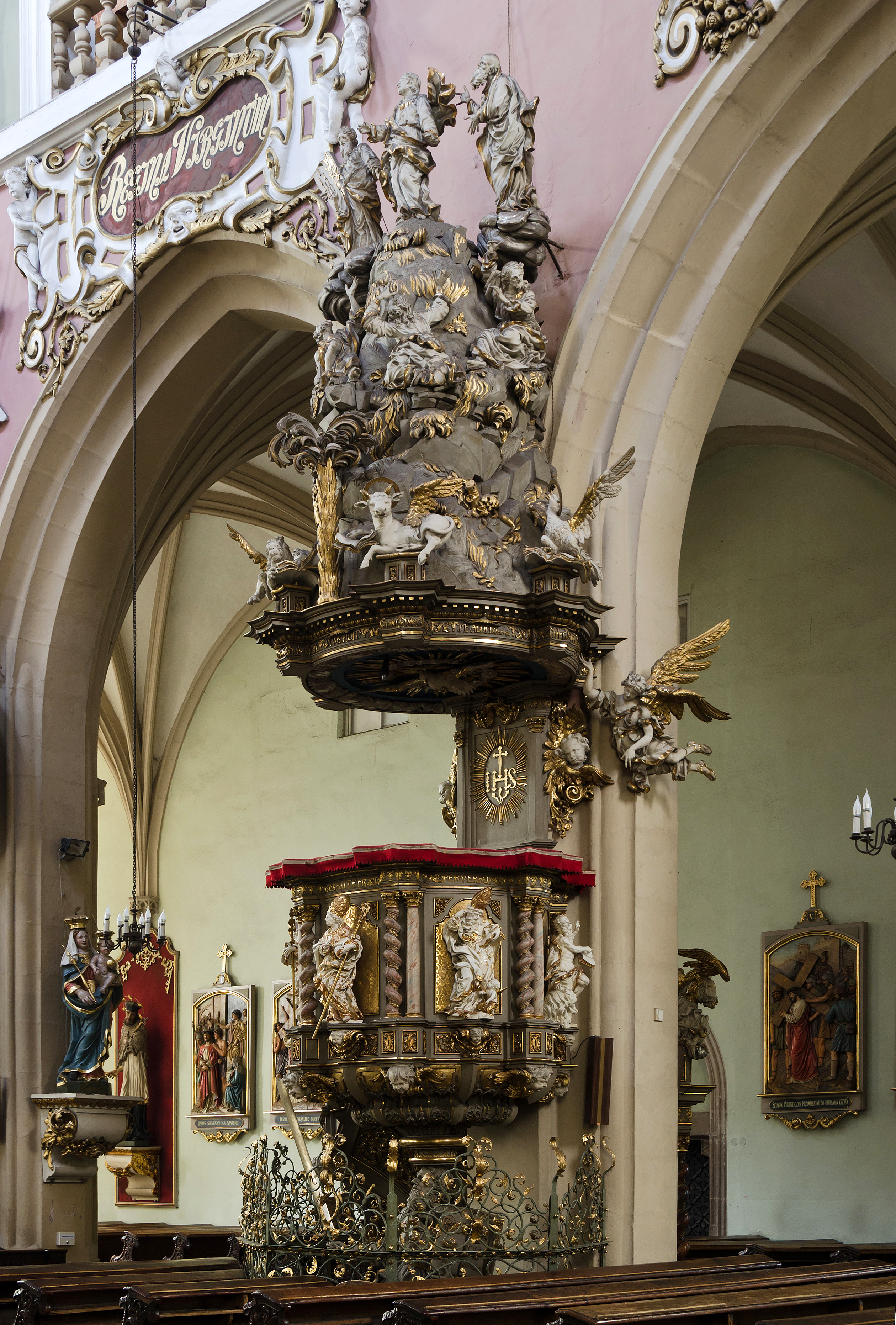 Church of the Assumption in Kłodzko